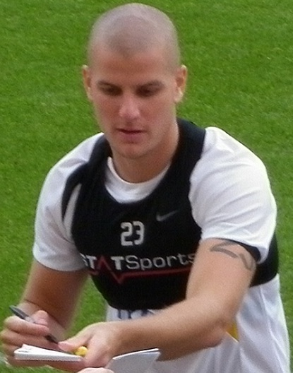 Marc Tierney at Norwich City's open training session on 9 August 2012.